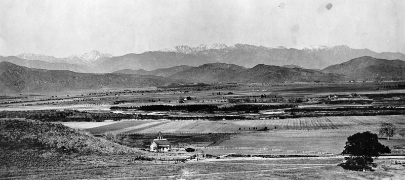 Panoramic view from Griffith Park of the site of the later city of Glendale as it appeared sometime between the partition of the great San Rafael Rancho in 1870 and the founding of the town in the middle eighties. Verdugo Hills and San Gabriel Mountains in background.)